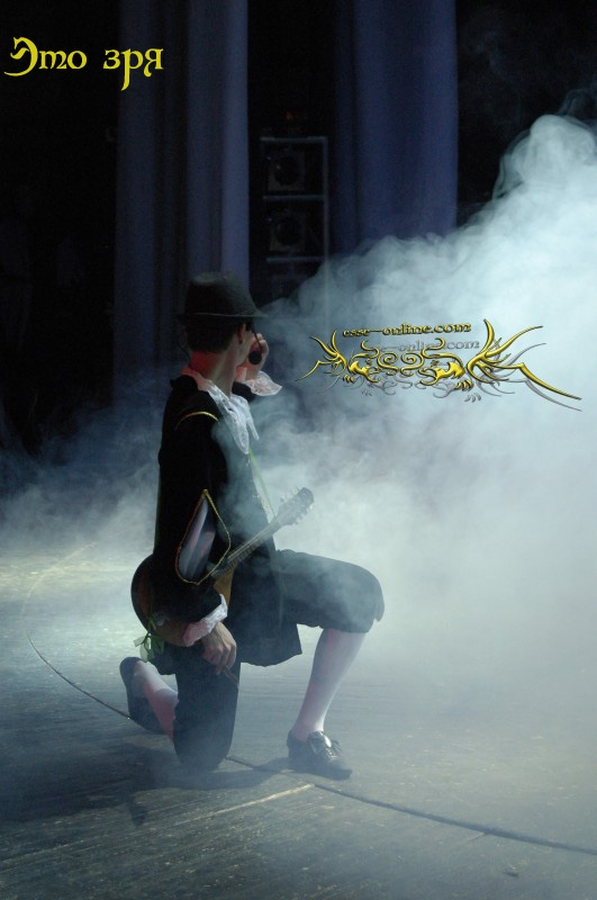 Rock-opera "Road with no return" of group "ESSE", based on the saga of A. Sapkowski "The Witcher". Scene 8. "It is in vain". Photo from an ESSE group concert in Rostov-on-Don 10.04.2010.